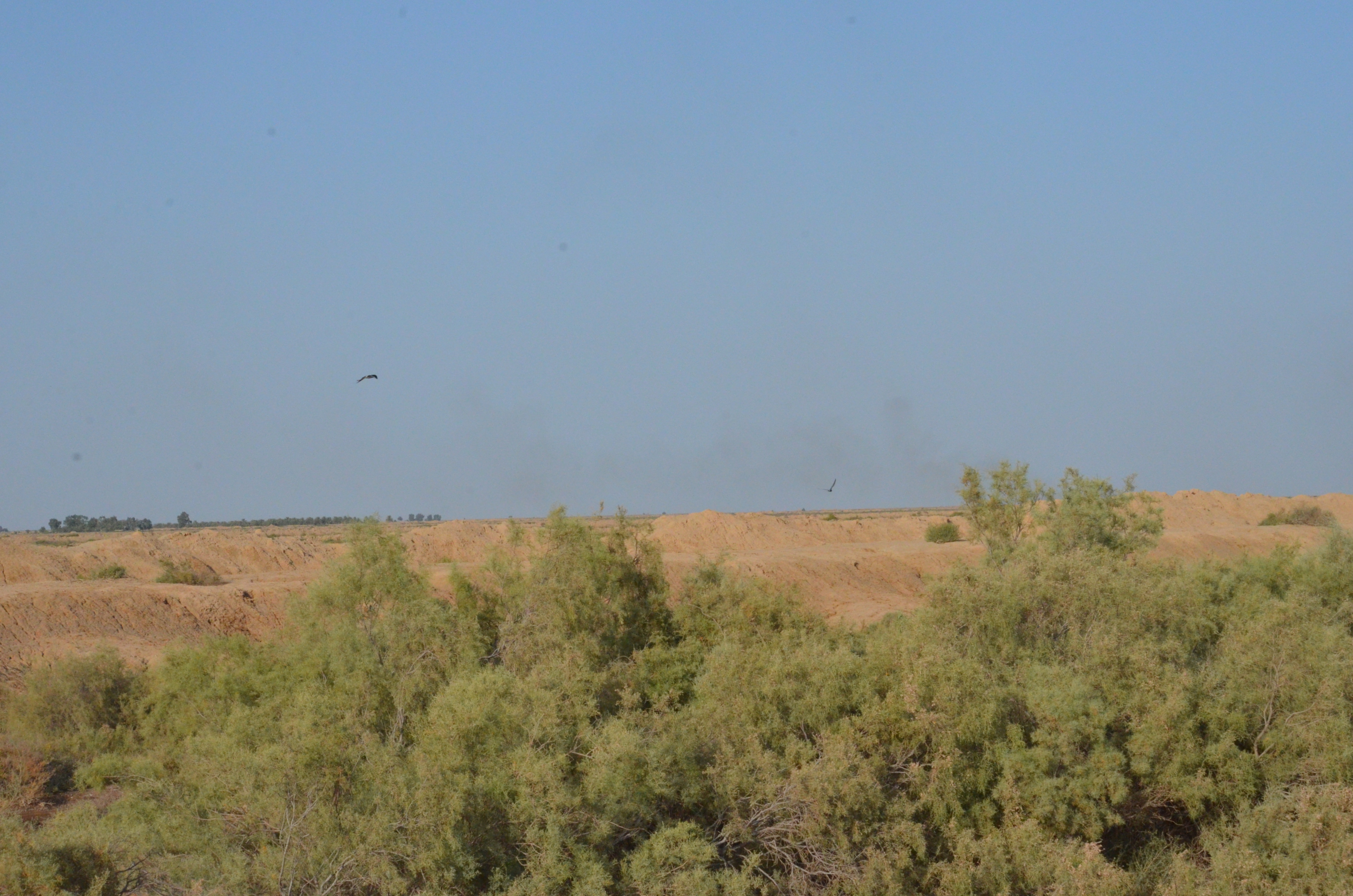 Dalmaj wetland, Afak, Al-Qadissiyah, Iraq.